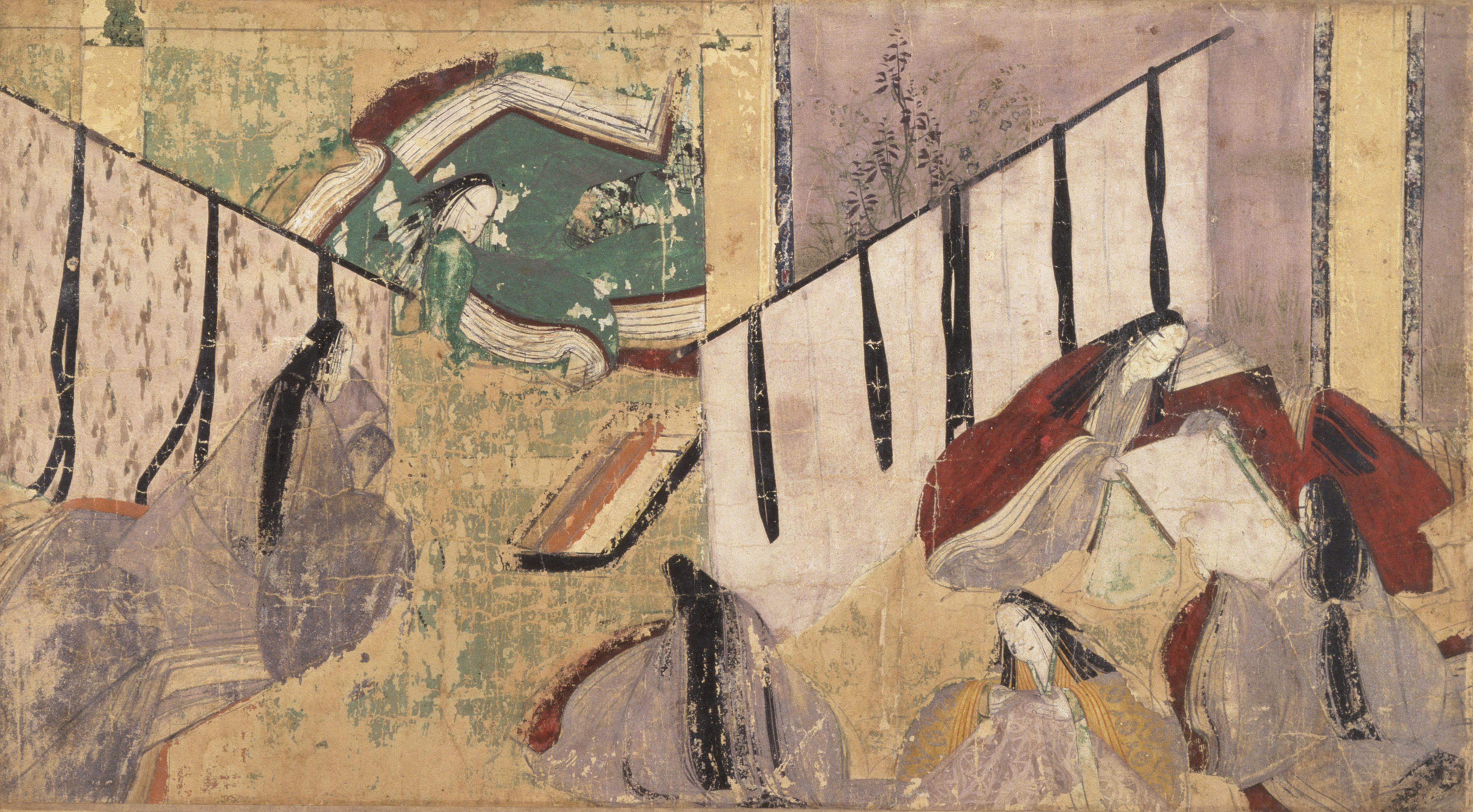 A scene of the Chapter "SAWARABI "(SPROUT) of Illustrated handscroll of Tale of Genji (written by MURASAKI SHIKIBU(11th cent.). The handscroll was made in about ACE1130 and stored in TOKUGAWA Museum, Japan. The handscroll were separated to each sections and mounted to frame for conservation. Height about 21.5 cm.